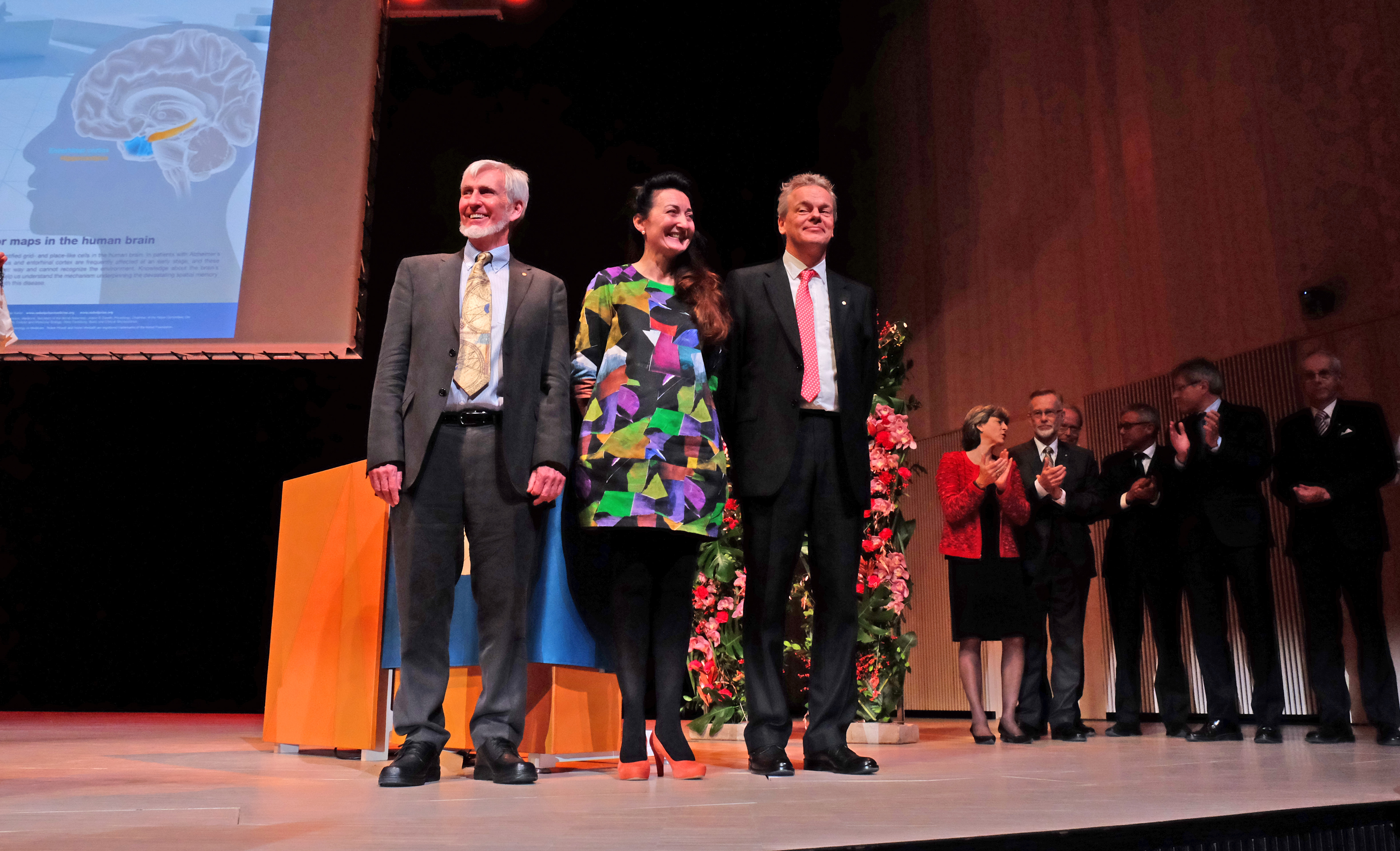 Nobel Lectures in Physiology or Medicine, in Aula Medica at Karolinska Institutet, 7 Dec 2014. After the lectures. From left John O'Keefe, May-Britt Moser, Edvard Moser, members of the Nobel Committee for Physiology or Medicine. Photo: Gunnar K. Hansen, NTNU Comm. Div. ماي بريت موزر مع عالم الأعصاب جون أوكيف وزوجها العالم إدوارد موزر وأعضاء لجنة نوبل لعلم وظائف الأعضاء والطب